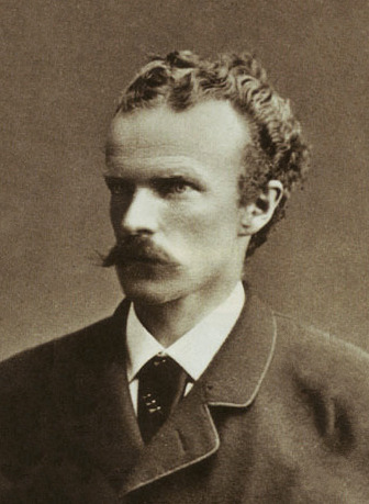 Duke Karl-Theodor in Bavaria (1839-1909)